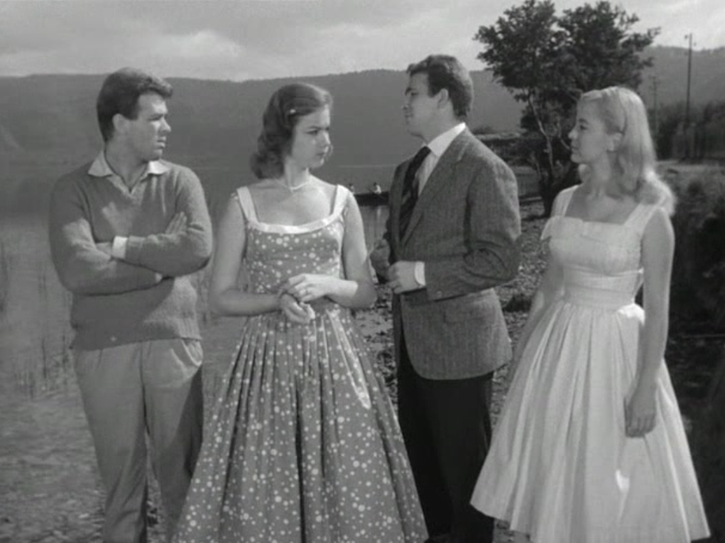 Screenshot from Belle ma povere (1957)